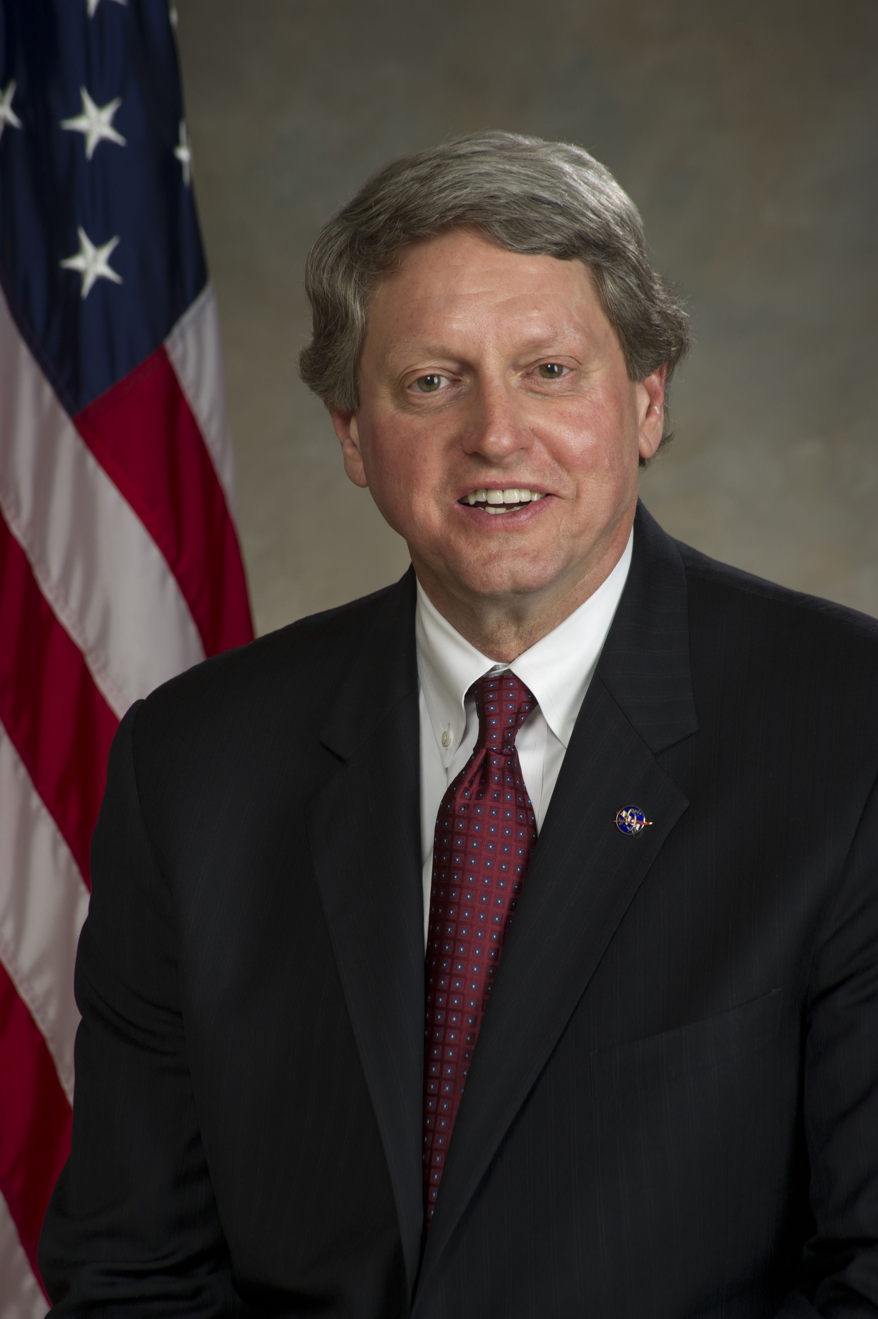 Arthur E. "Gene" Goldman, Acting Director of NASA's Marshall Space Flight Center. Official NASA photo from their April 5, 2012, press release announcing Goldman's appointment.